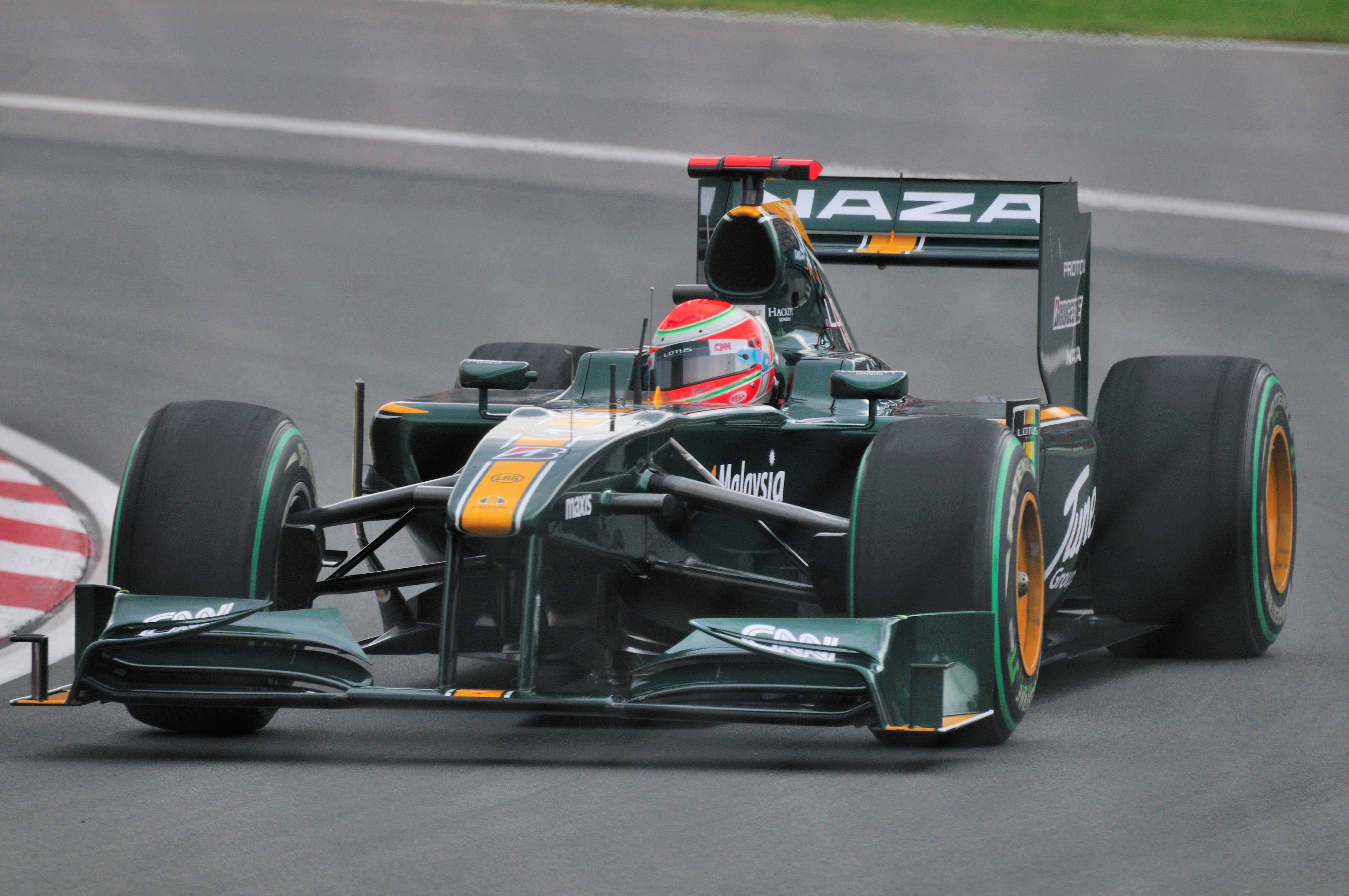 Lotus Racing driver Jarno Trulli of Italy in the Senna Corner (2010 Montreal GP)